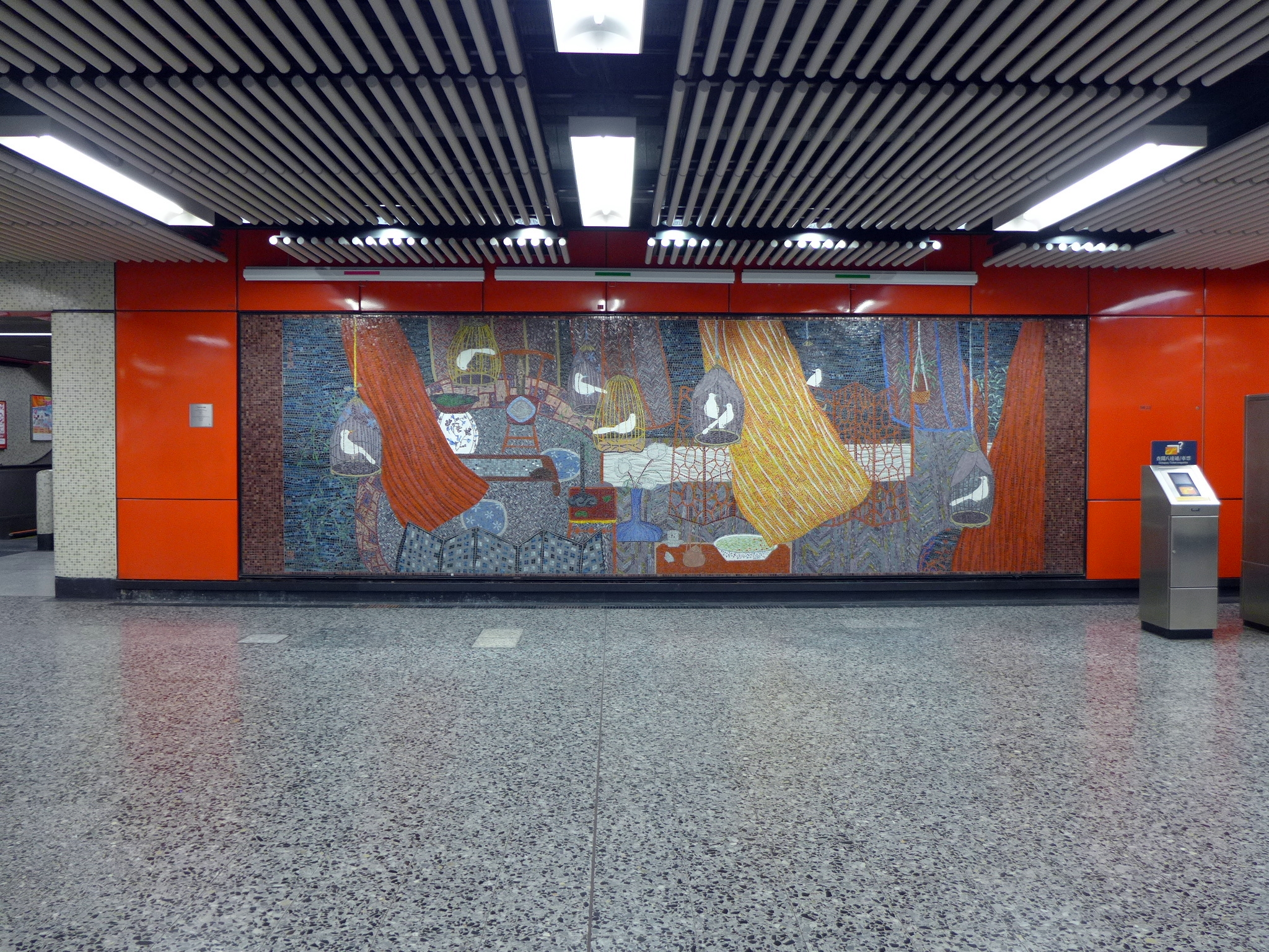 Yao Ma Tei Station Concourse Artwork